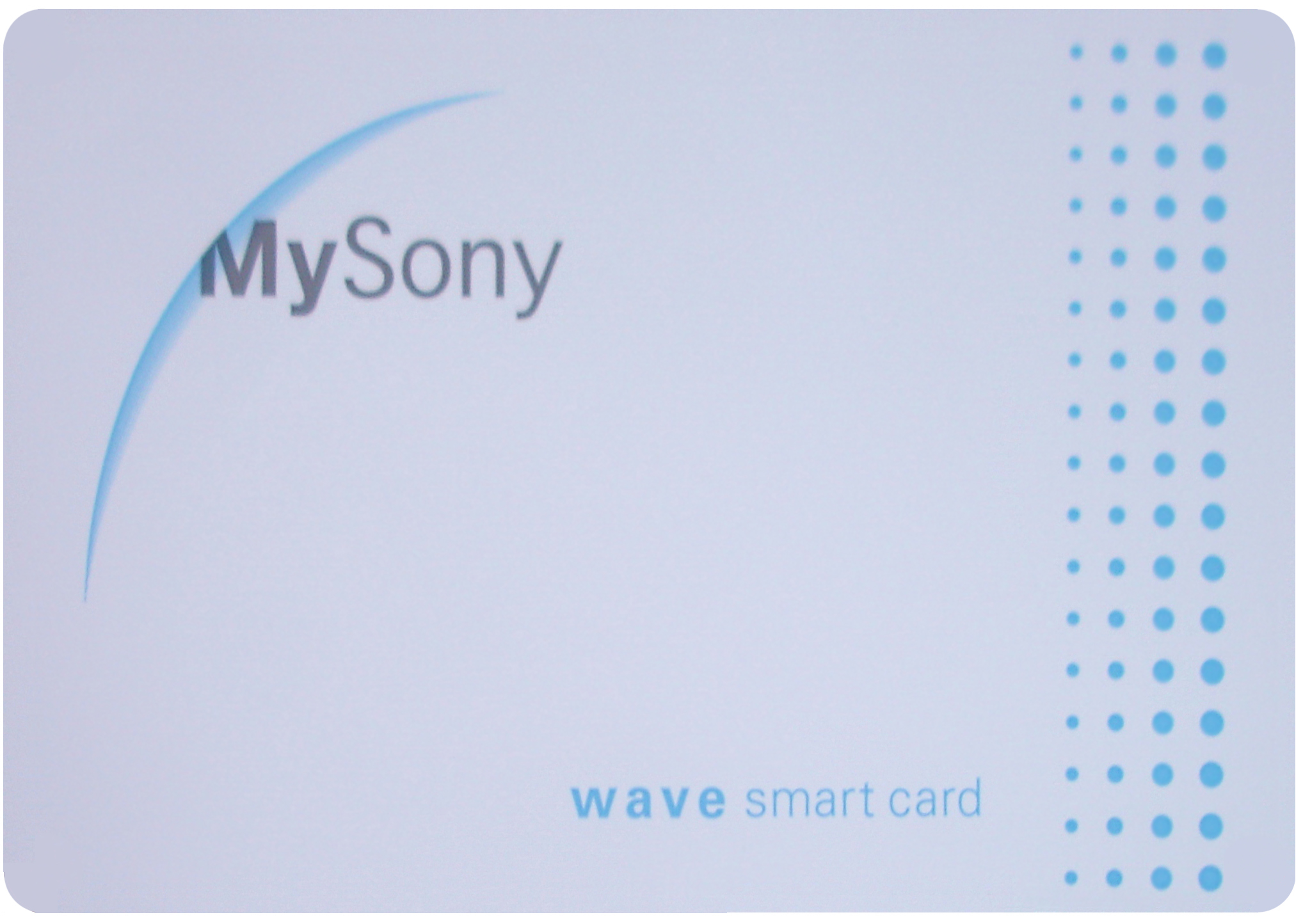 MySony Wave FeliCa Contactless IC Card obverse